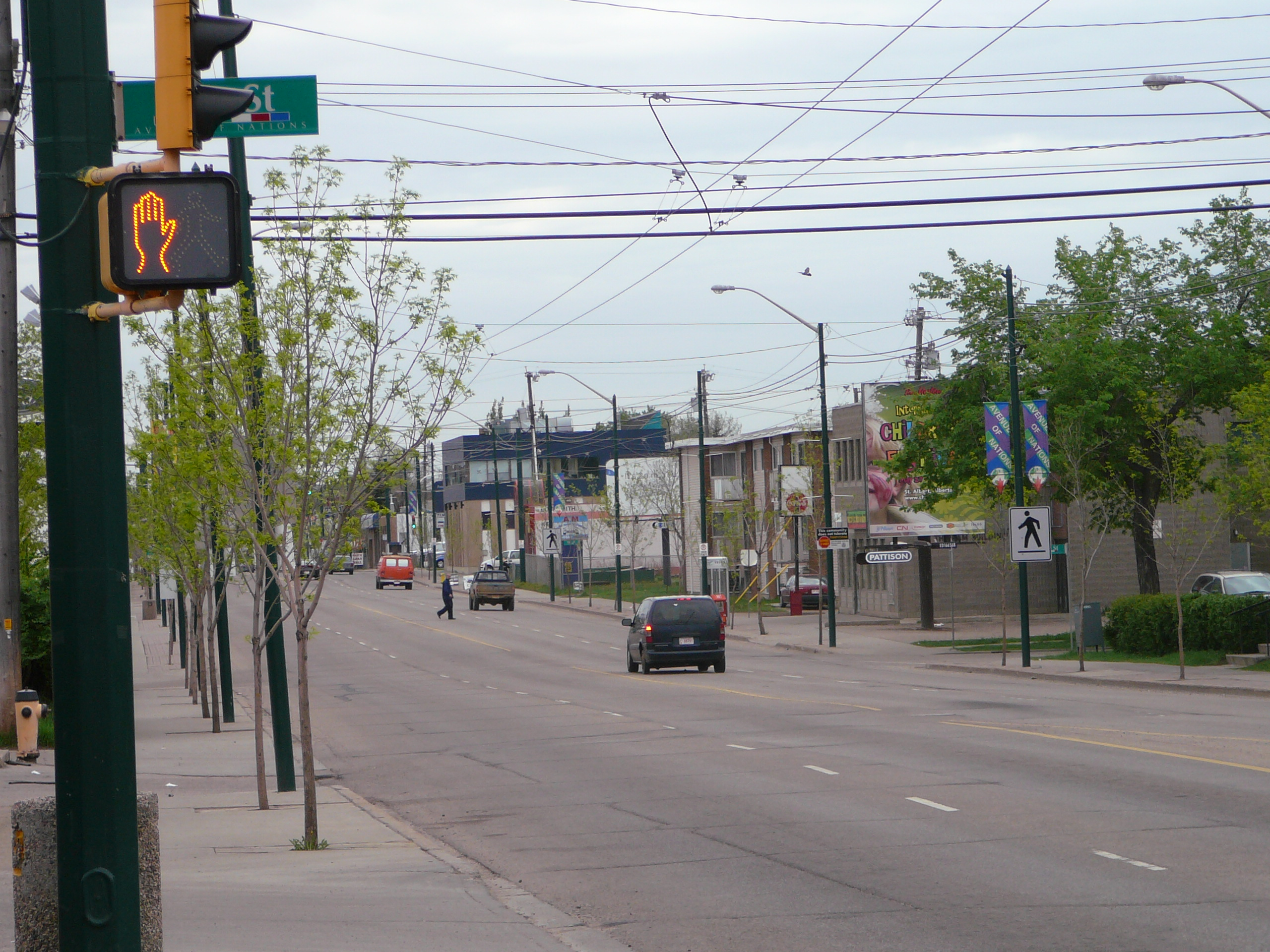 Picture of the commercial areas aloing 107 Avenue in the Edmonton neighbourhood of Queen Mary Park.